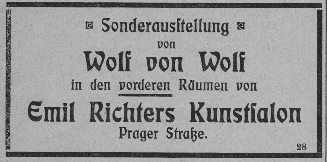 Scan from the Dresdner Journal, 1906